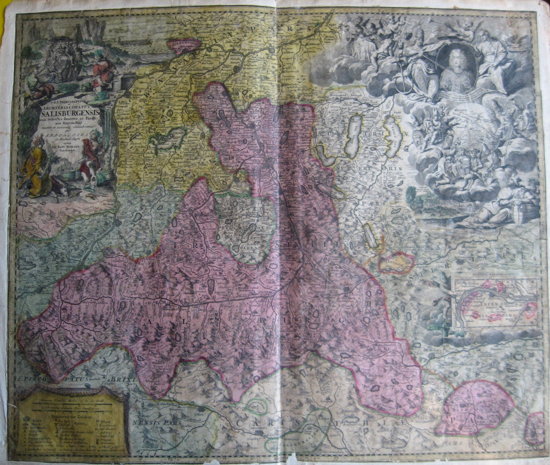 Map of the Prince-Archbishopric of Salzburg c. 1715 with portrait of ruling prince-archbishop Franz Anton Fürst von Arrach top right. The city of Salzburg is located in the northernmost part of the archbishopric. The Prince-Archbishopric of Salzburg must not be confused with the archdiocese of Salzburg, which covered a much larger area, and over which the prince-archbishop exercised only the administrative and spiritual jurisdiction of an ordinary archbishop. Published by Johann Baptist Homann, c. 1715.